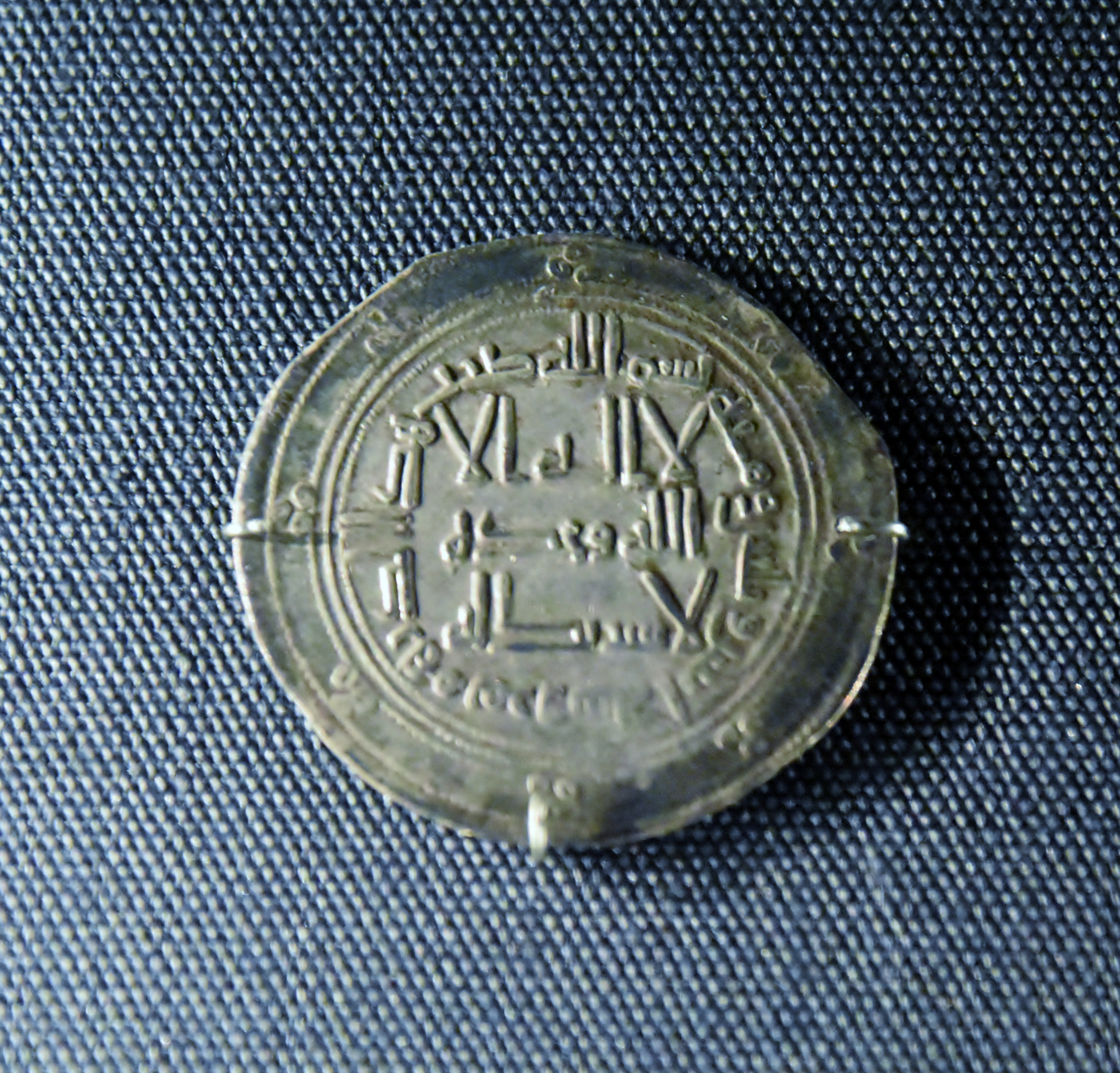 Abbasid silver dirham in the name of abu Muslim struck at Marv in AH 132 (749-50), The David Collection, Copenhagen